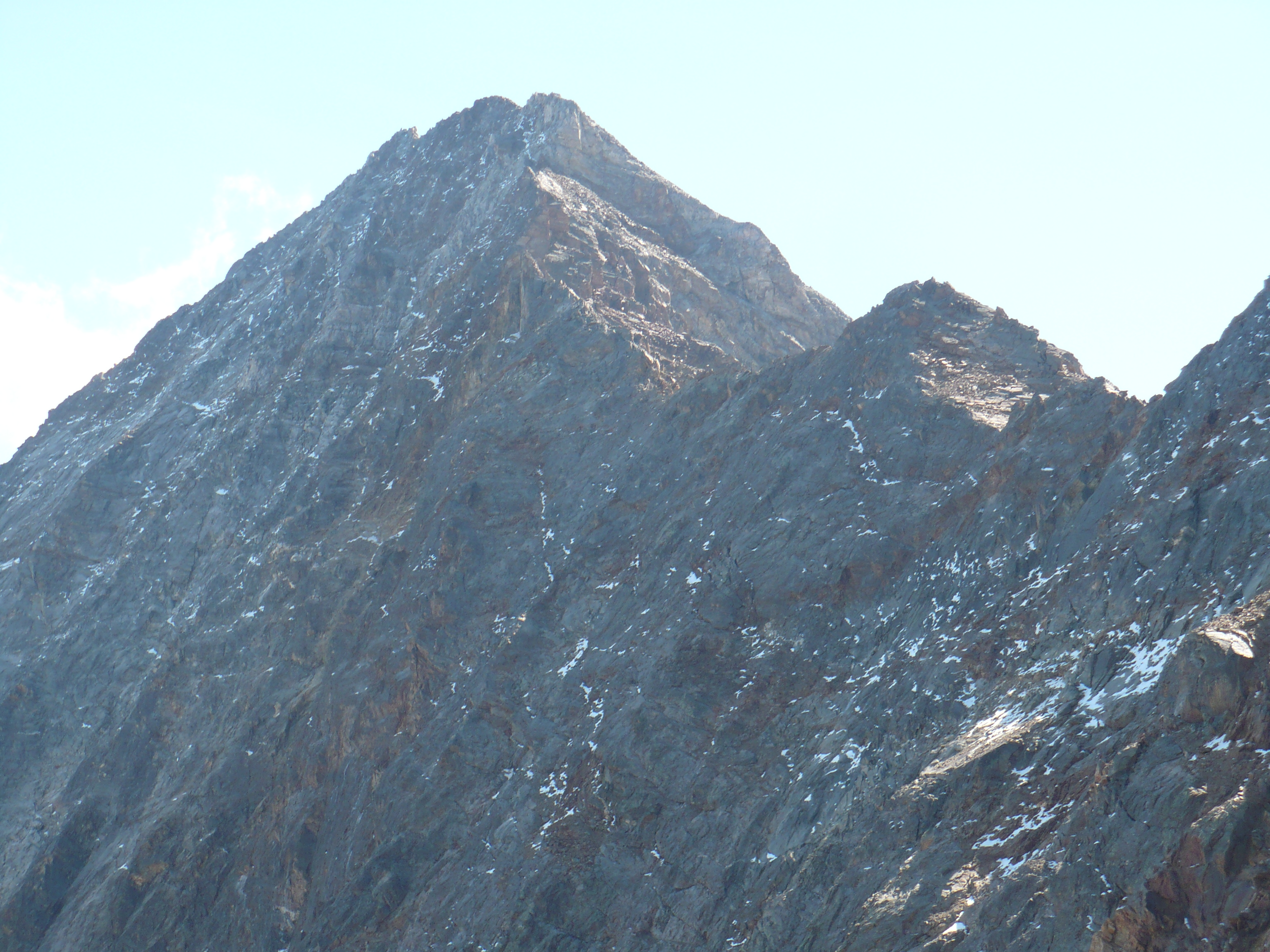 Mounte Emilius - Graian Alps - Aosta Valley - Italy